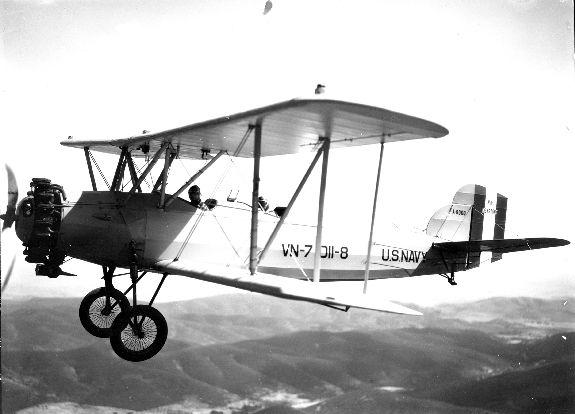 Keystone NK-1 VN-7 D11-8 (A-8060). The keystone NK-1 along with the N2Y-1 was an attempt by the Navy to find a low-priced plane for flgiht training. VN-7 Naval District 11, #8 was used by the NAvy at NAS San Diego for aviation orientation flgihts for newly commissioned officers. circa 1930-1931.